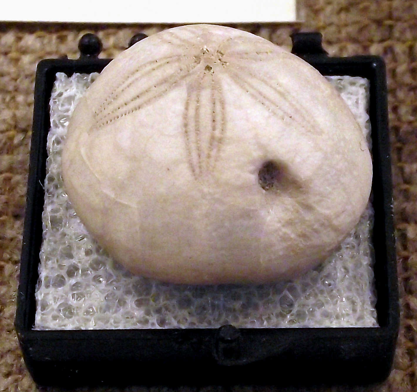 Hardouinia florealis fossil from Alabama, on display at the San Diego County Fair, California, USA.